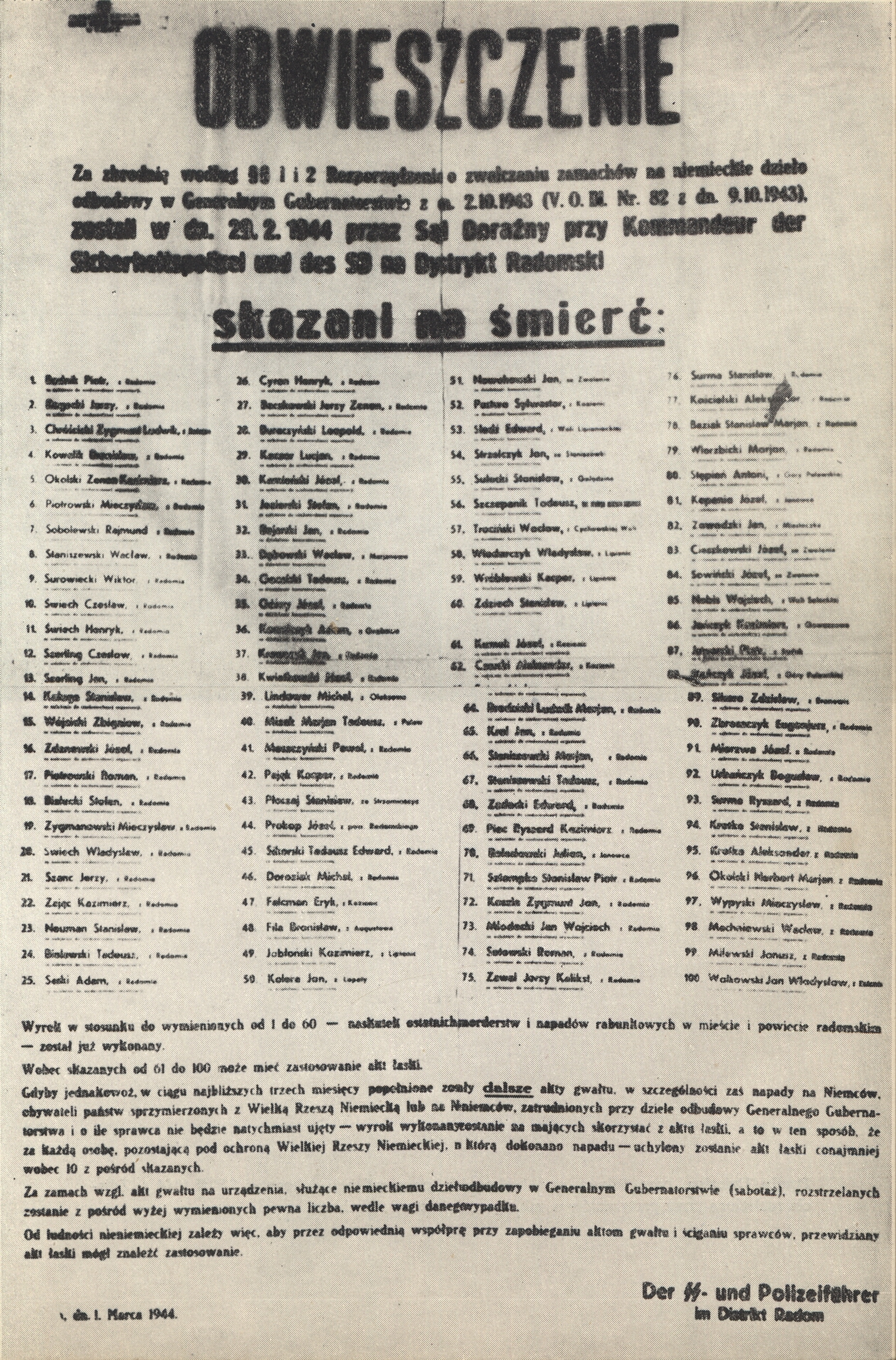 German poster in occupied Poland (dated 1st March 1944), signed by SS and Police Leader in Radom (SS-Brigadeführer Herbert Böttcher), announcing death penalty for 100 Poles from Radom district. Announcement informs that 60 convicts has been already executed and the rest of them will be treated as the hostages.